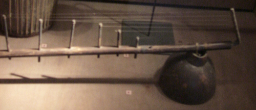 Goong, a musical instrument of some ethnic groups in Central Highlands, Vietnam.